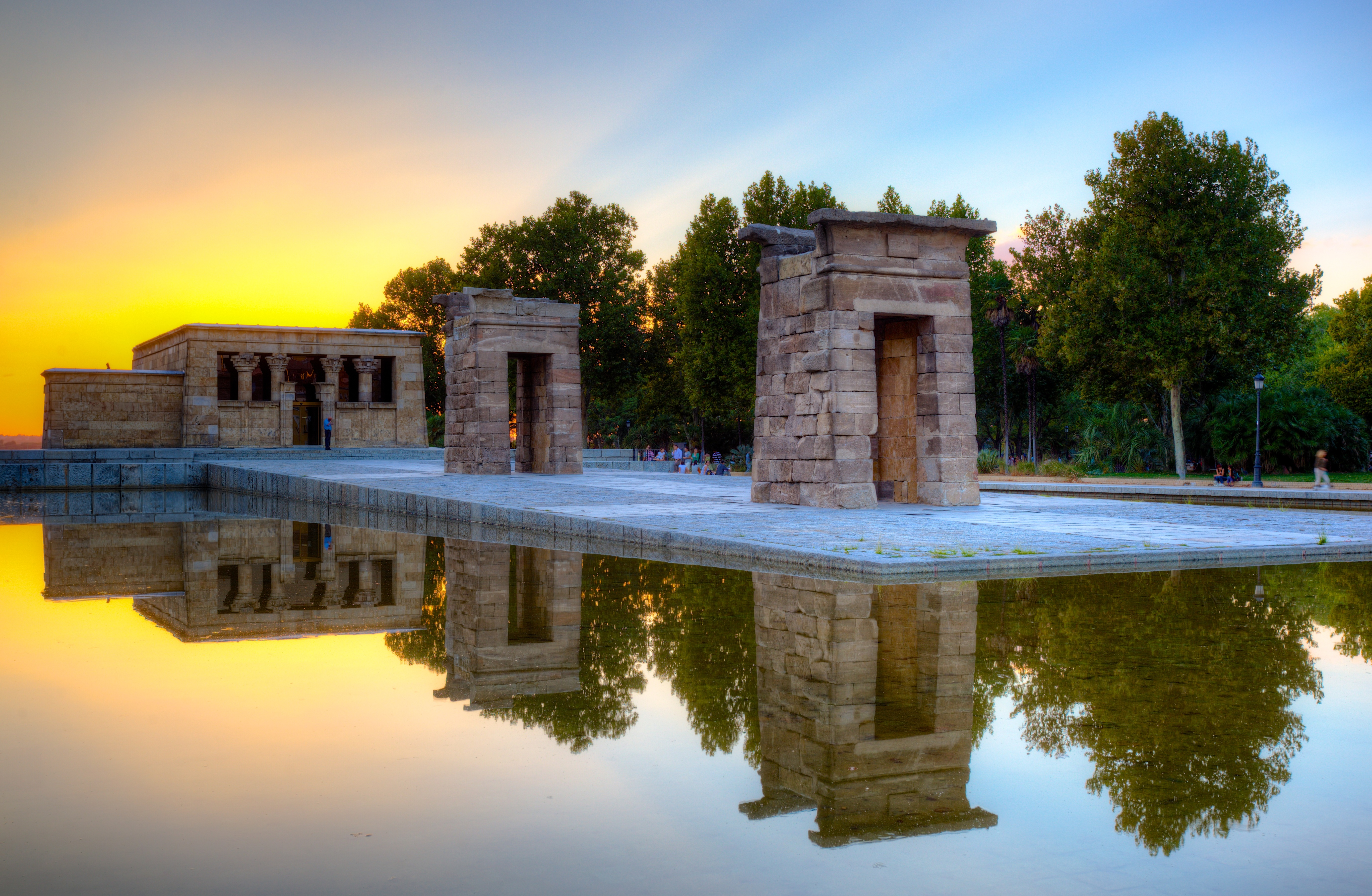 Templo de Debod, Madrid